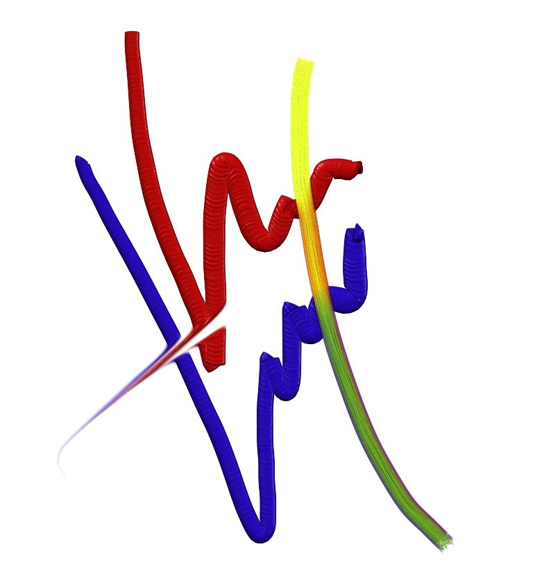 A quick demonstration of the blendable texture and thickness of paint and the realistic colour mixing in ArtRage 4